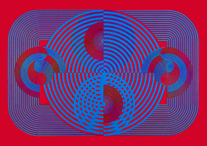 Chromatic Invention #2 1970 Silkscreen 435 x 635 mm